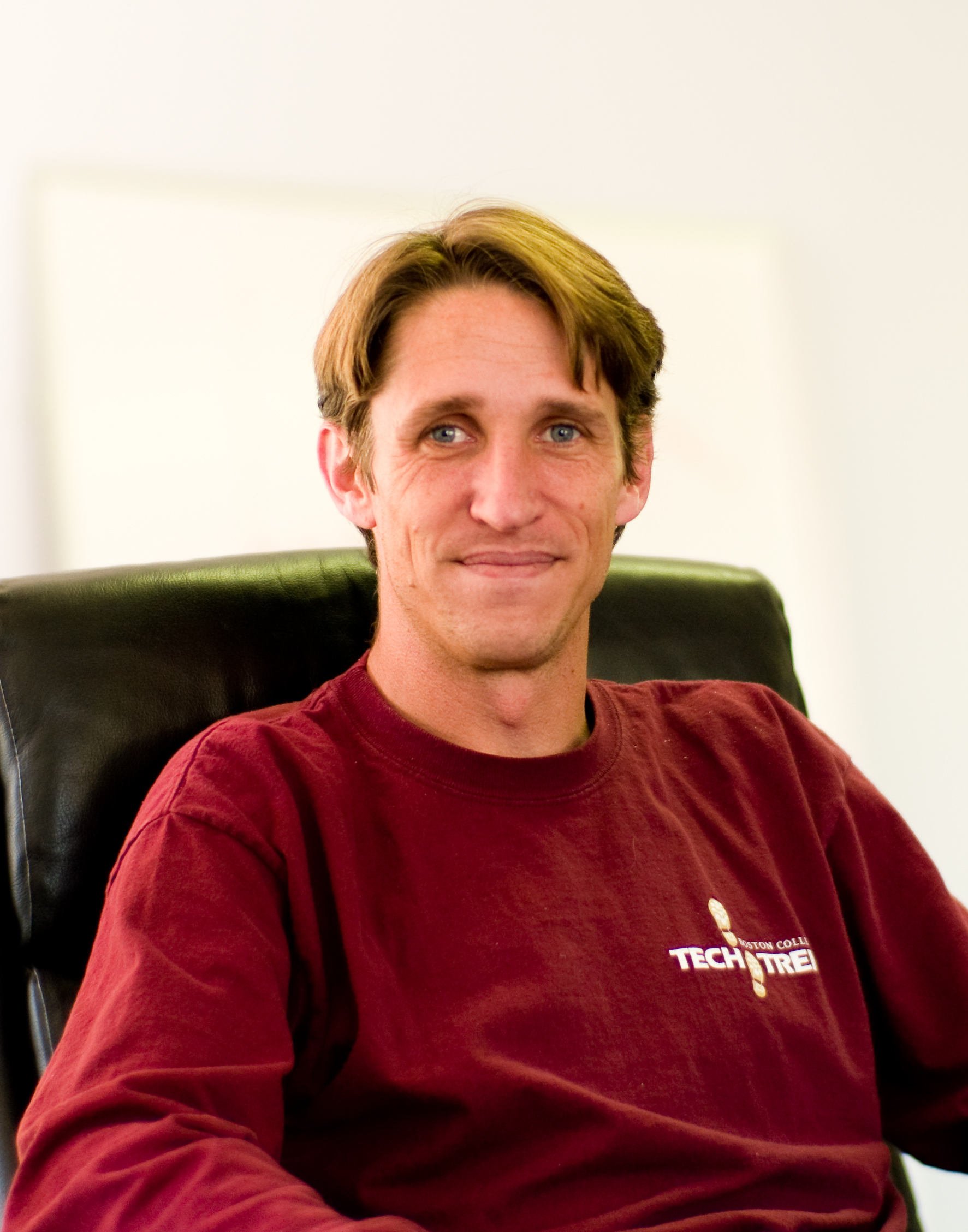 Ross Mayfield